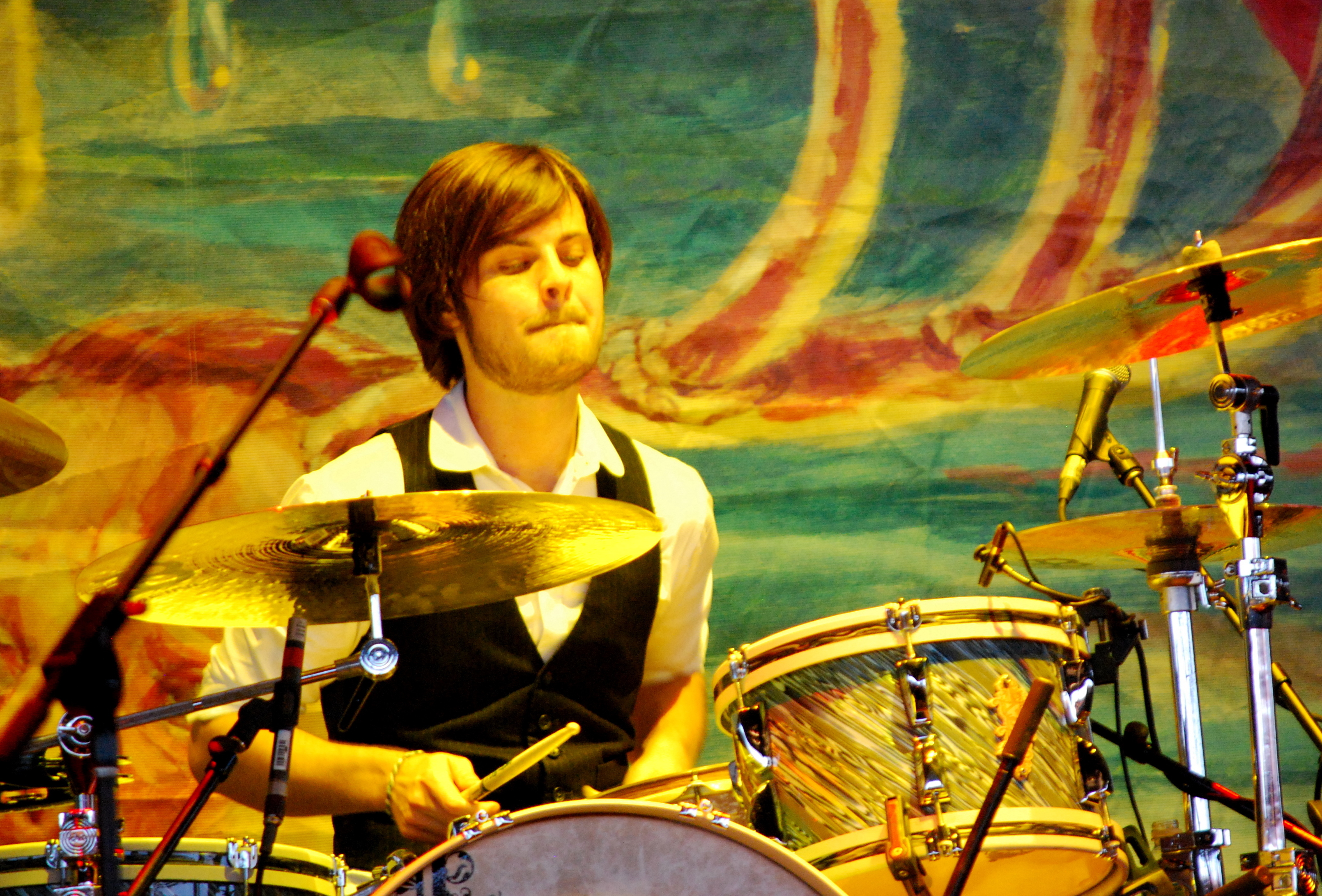 Spencer Smith